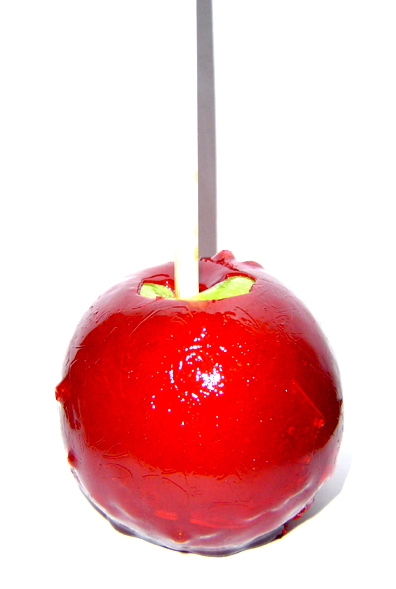 A digital picture of a candy apple, taken by Loui Andary, DaemonDivinus 2005-09-24.